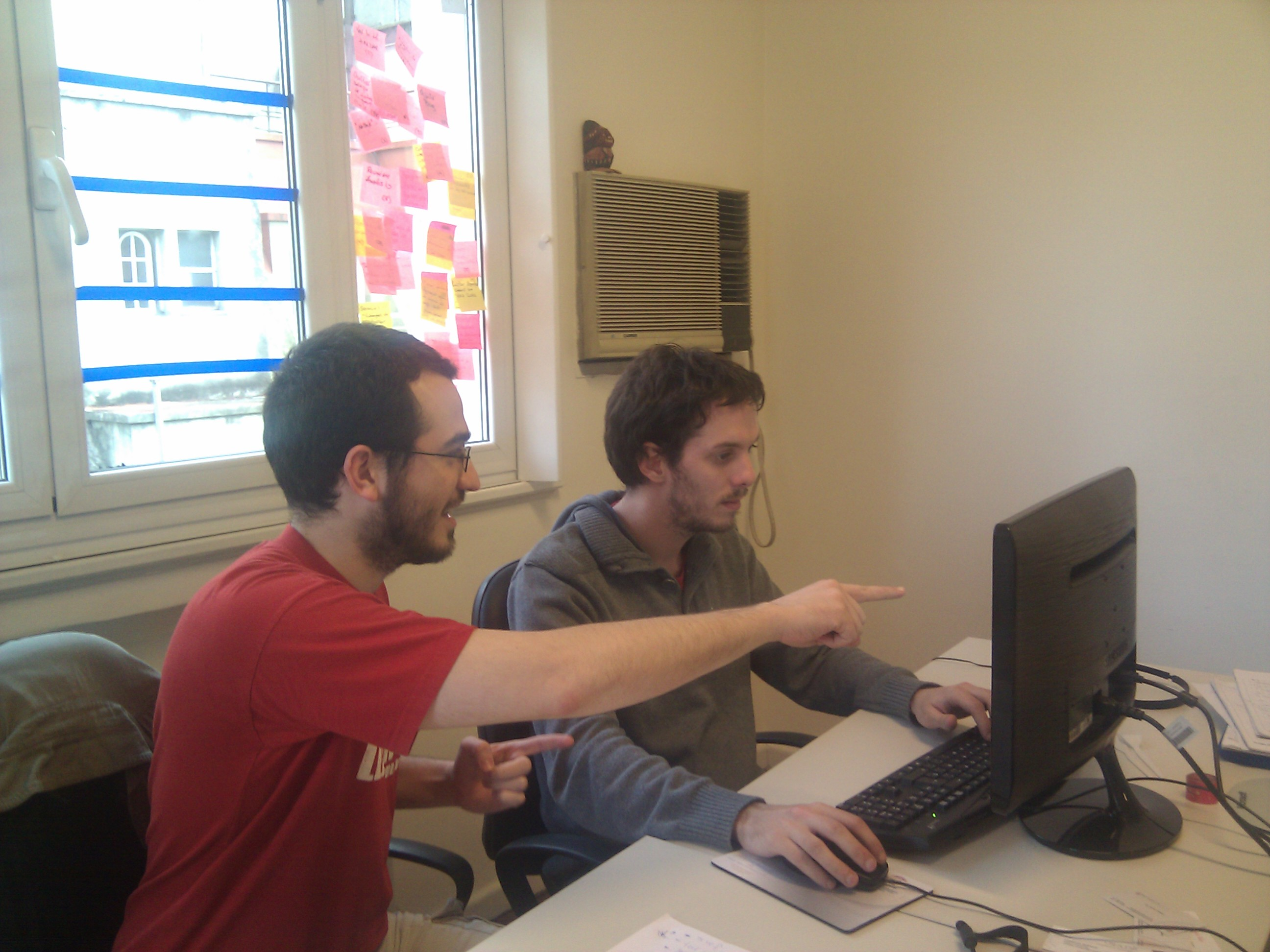 Two programmers